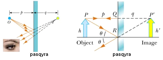 Pasqyrimi